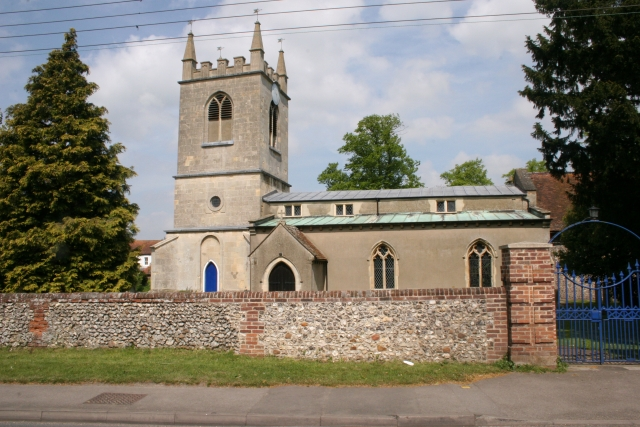 Nave and west tower of St Helen's parish church, Benson, Oxfordshire, seen from the south